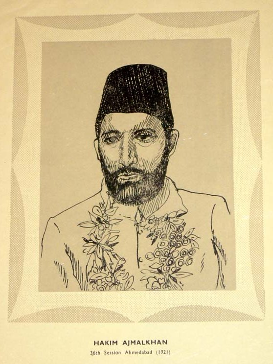 Hakim Ajmal Khan. Congress president 1921. Downloaded from this web site by :en:User:Fowler&fowler|Fowler&fowler :en:User talk:Fowler&fowler|«Talk» 11:52, 22 September 2007 (UTC)